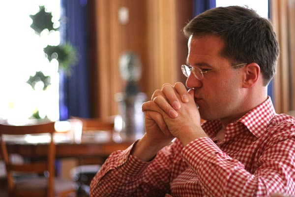 Portrait of Mark Rutte, leader of the VVD (Dutch political party). These were made in his office during his last interview as his previous job: secretary of the state (higher education).